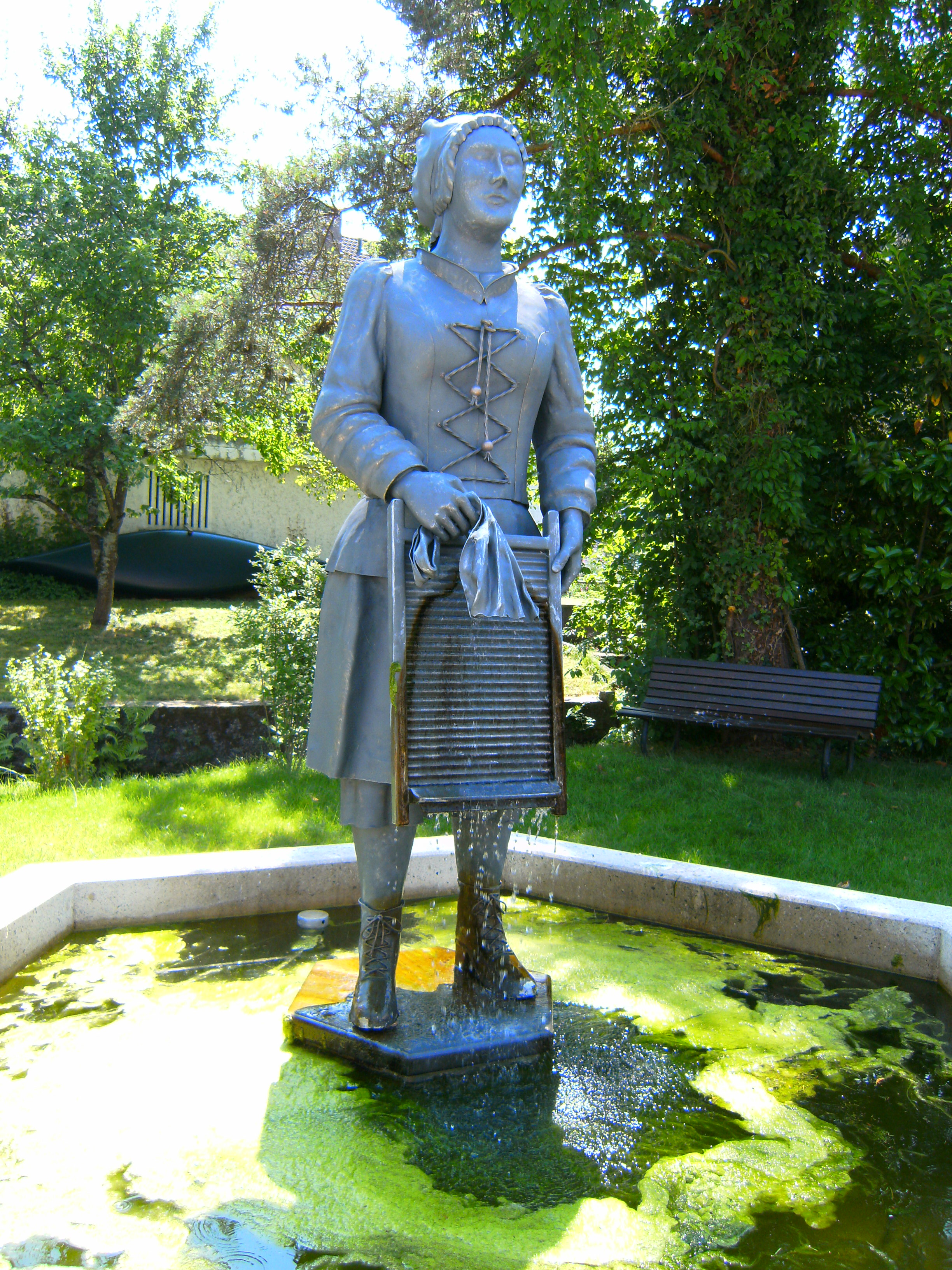 In memory for the washerwomen of former times in the little village of Markelfingen, a part of Radolfzell, Germany